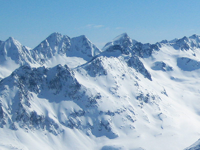 from left: Piz Git (2968 m), Piz Uffiern (3013 m) and Piz Blas (3019 m) seen from Pazolastock.